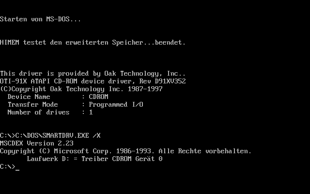 MS-DOS (Microsoft Disk Operating System) start-up screen, German version